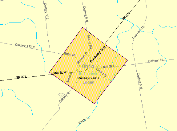 Map of Rushsylvania, a village in Logan County, Ohio, United States, with its boundaries at the time of the 2000 census.